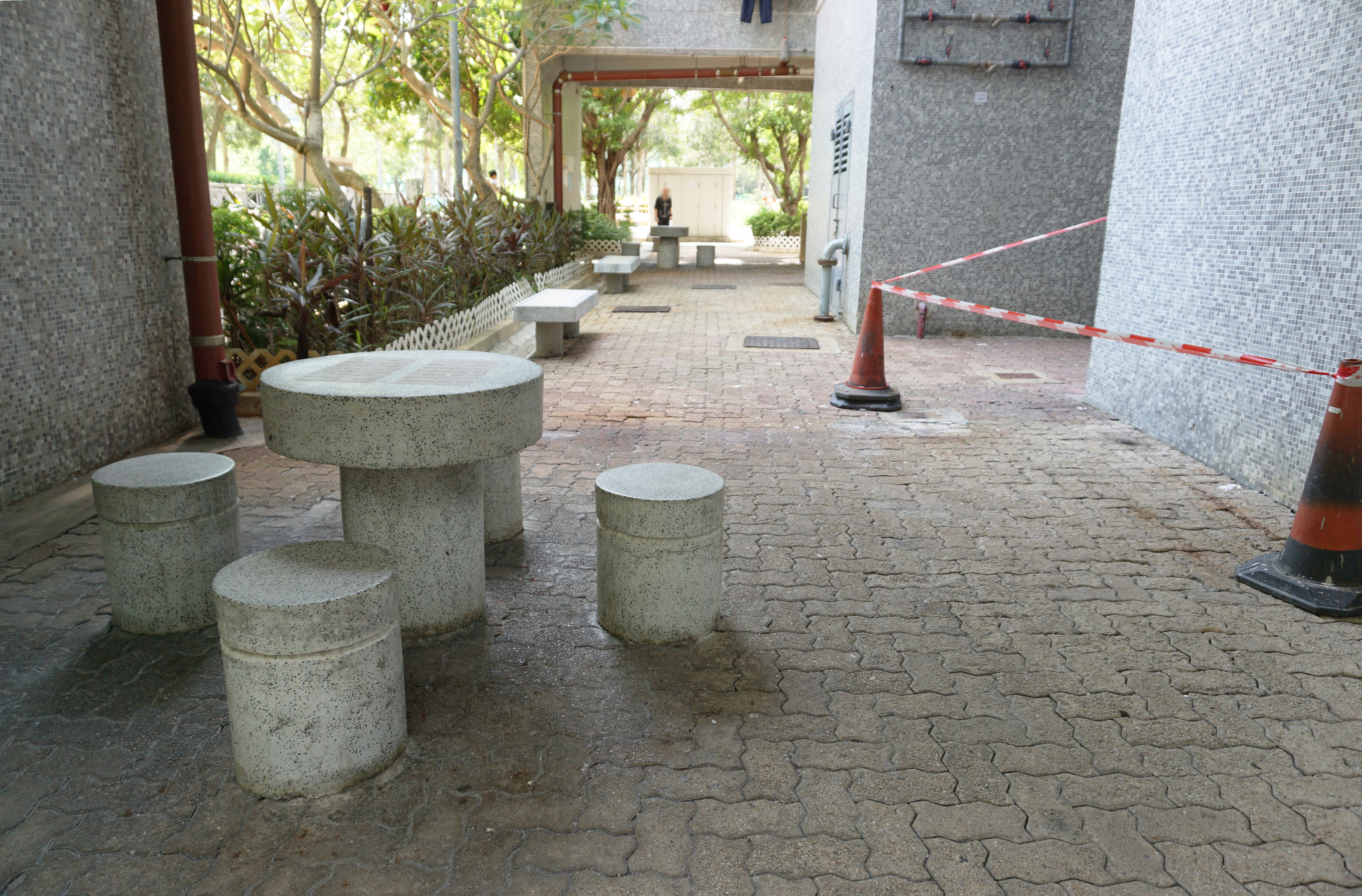 Serene Garden in Tsing Yi, Hong Kong.